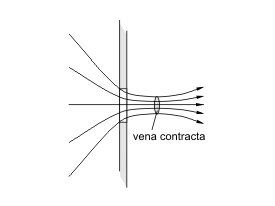 Mechanics of fluids - Vena contracta